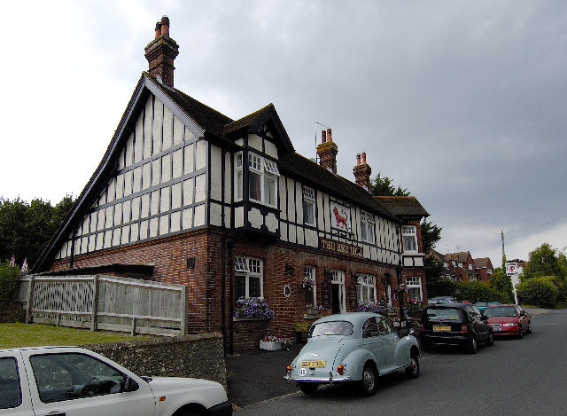 The Red Lion pub, Willingdon Village. The Red Lion, Willingdon features in George Orwell’s novel ‘Animal Farm’.